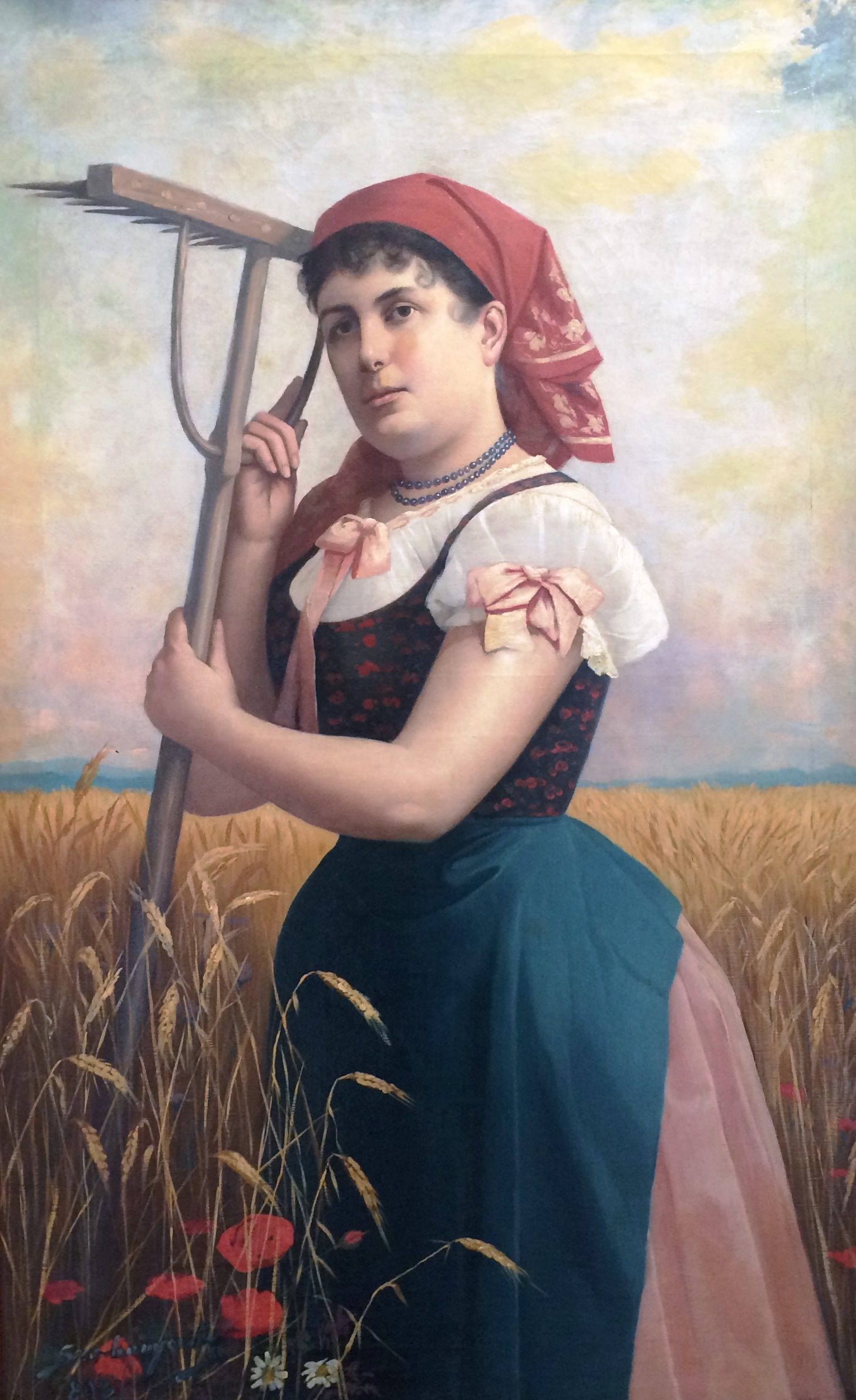 Painting by hungarian artist Mihaly Szobonya from the 1890s, depicting the actress Lujza Blaha.